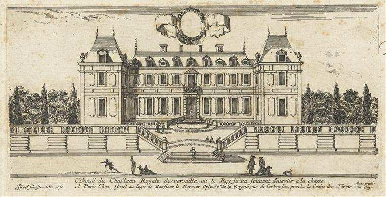 Garden facade of the Château of Versailles as built by Louis XIII